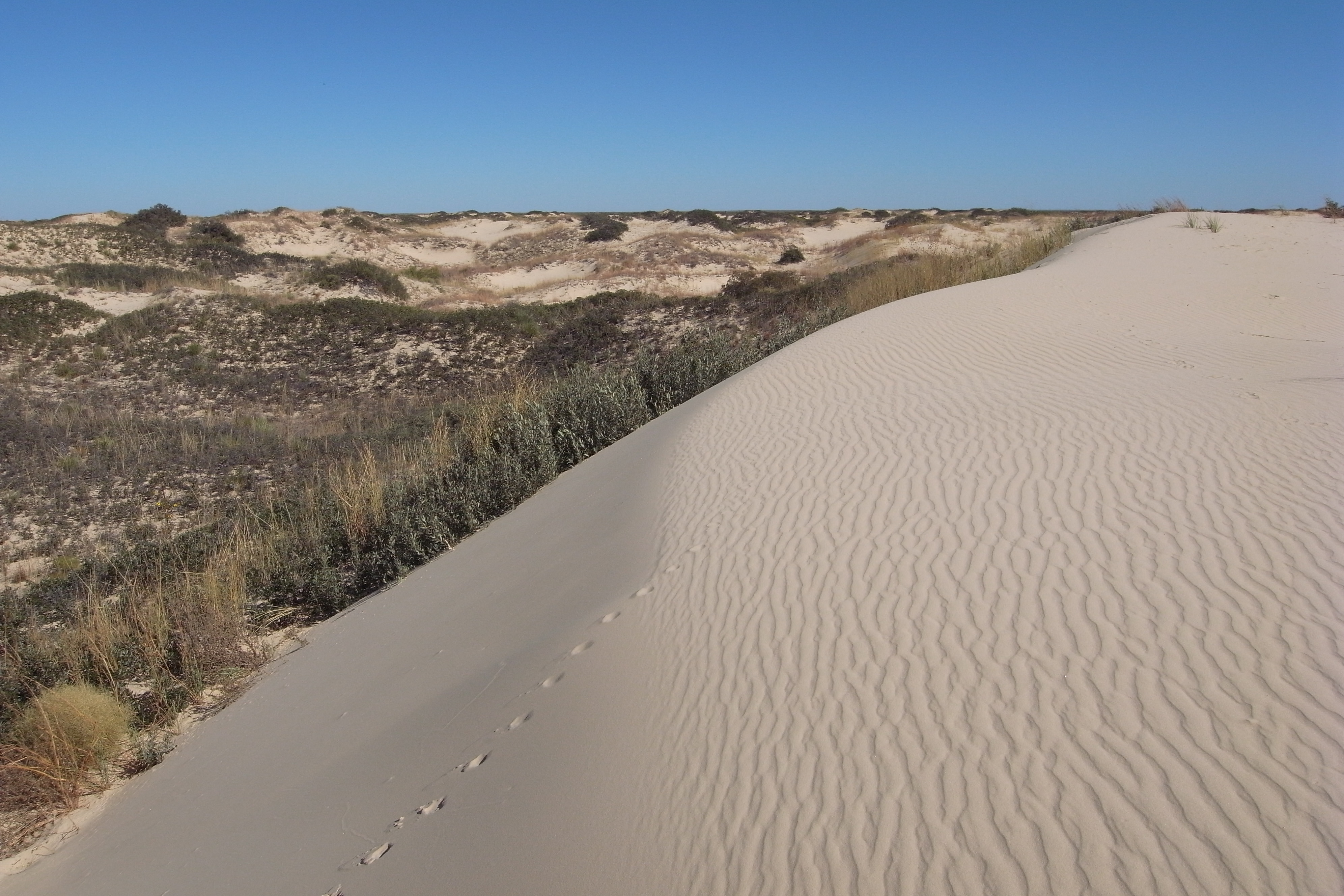 Sand encroaching upon vegetation, Monahans Sandhills State Park, Texas. Note track of deer.